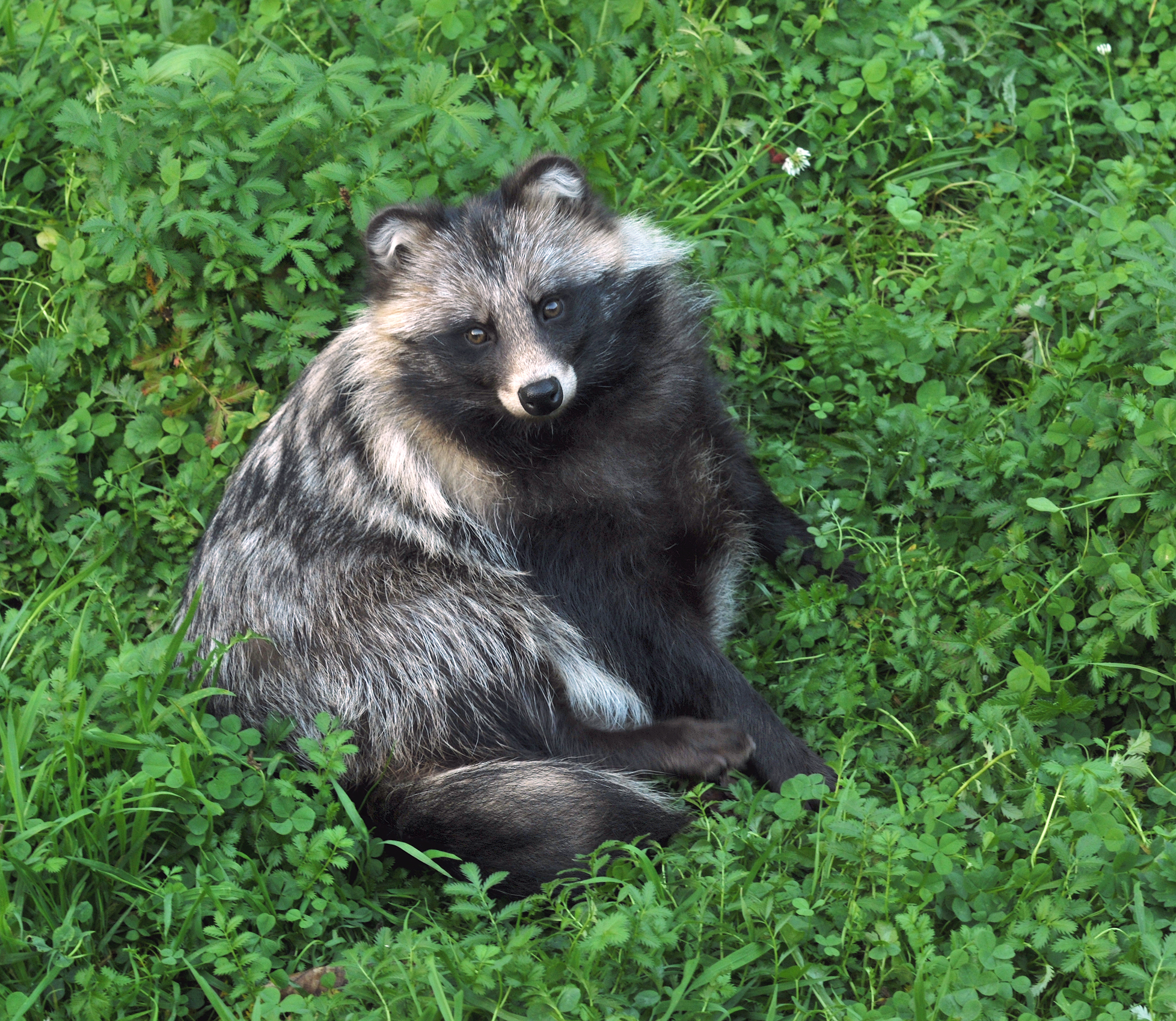 Raccoon dog in the Wisentgehege Springe game park near Springe, Hanover, Germany